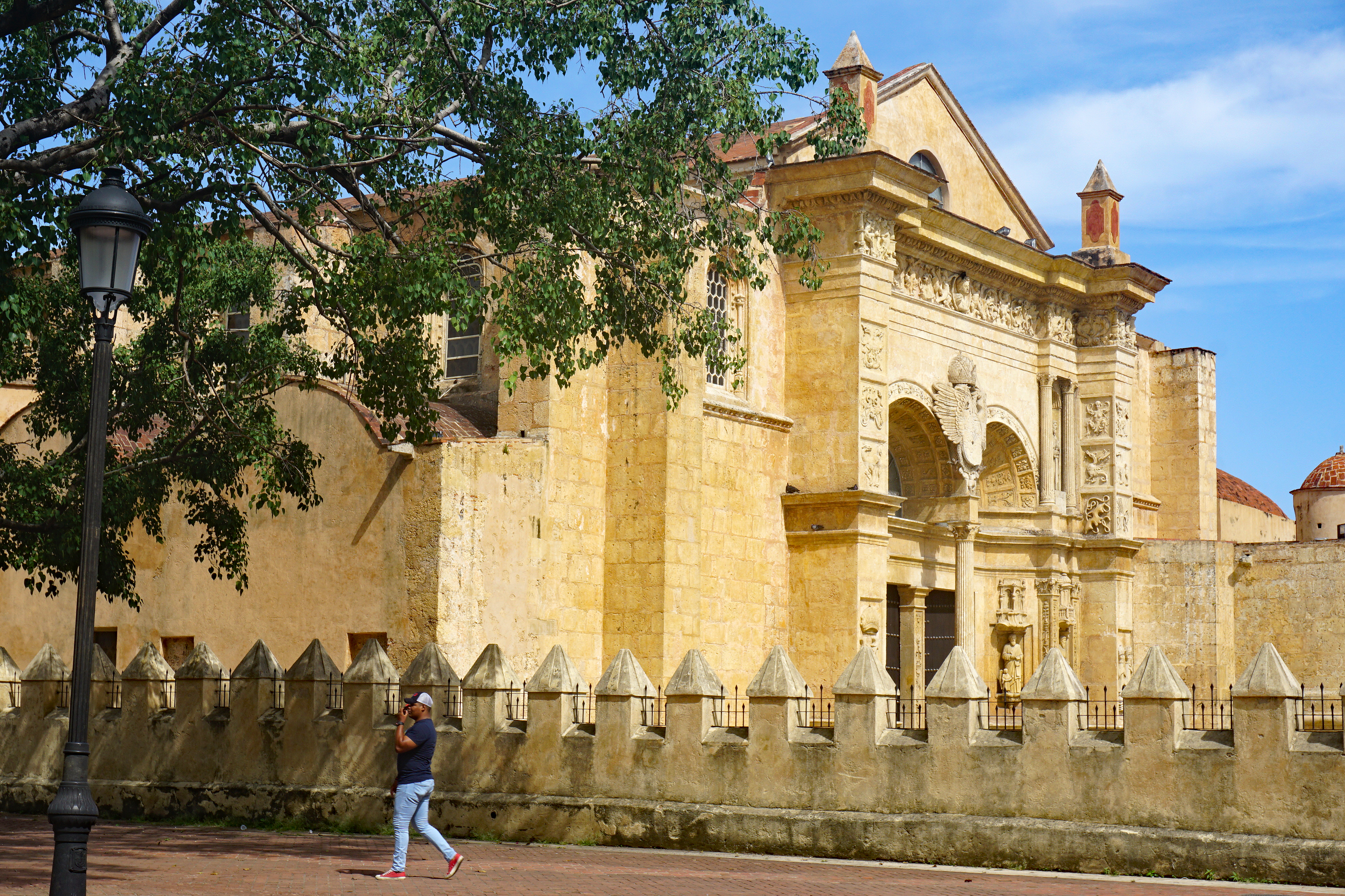 Catedral Primada de América/Basílica Menor de Santa María viewed from Consistorial Palace, Ciudad Colonial Santo Domingo.